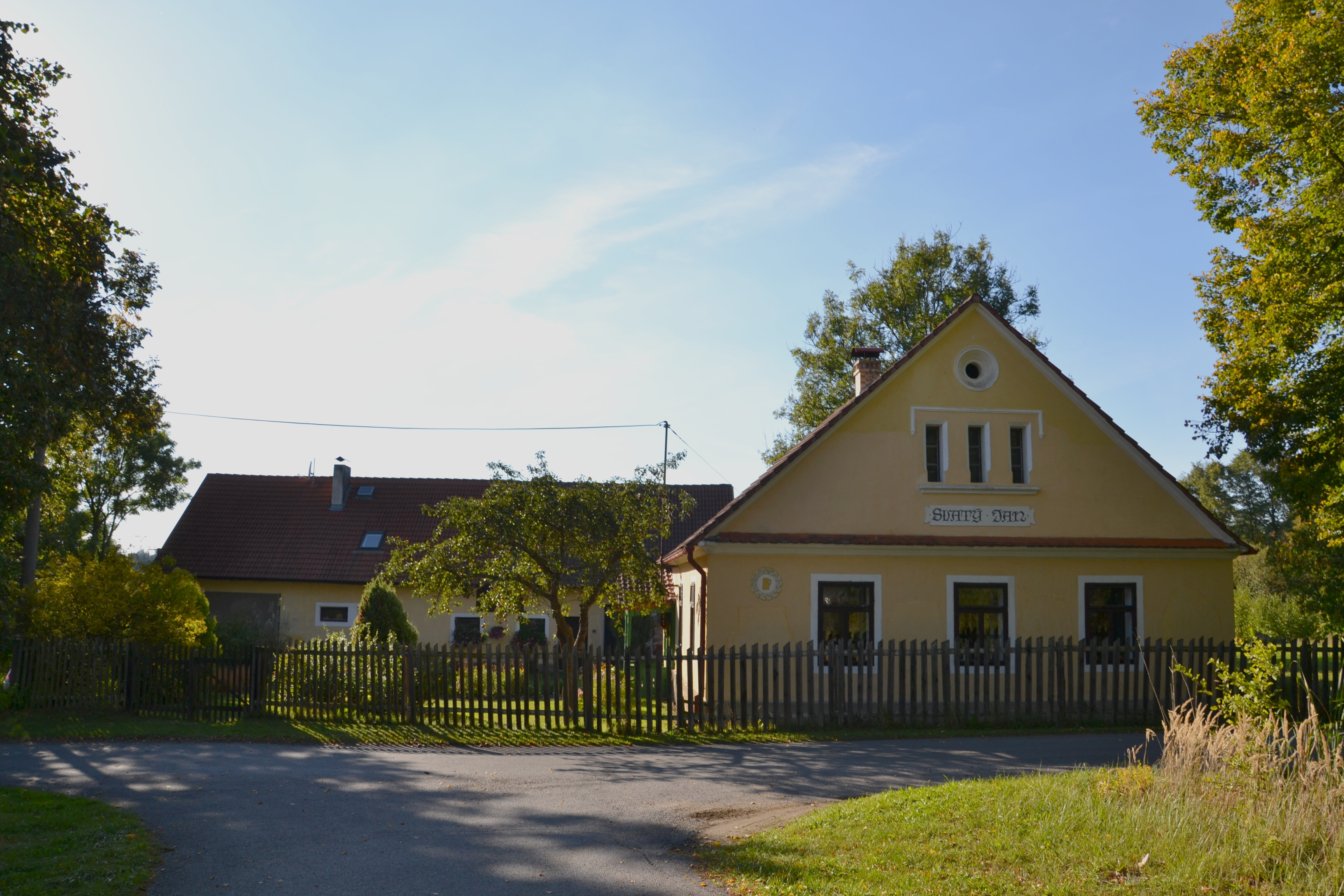 Church near Květov in Písek District, Czech Republic